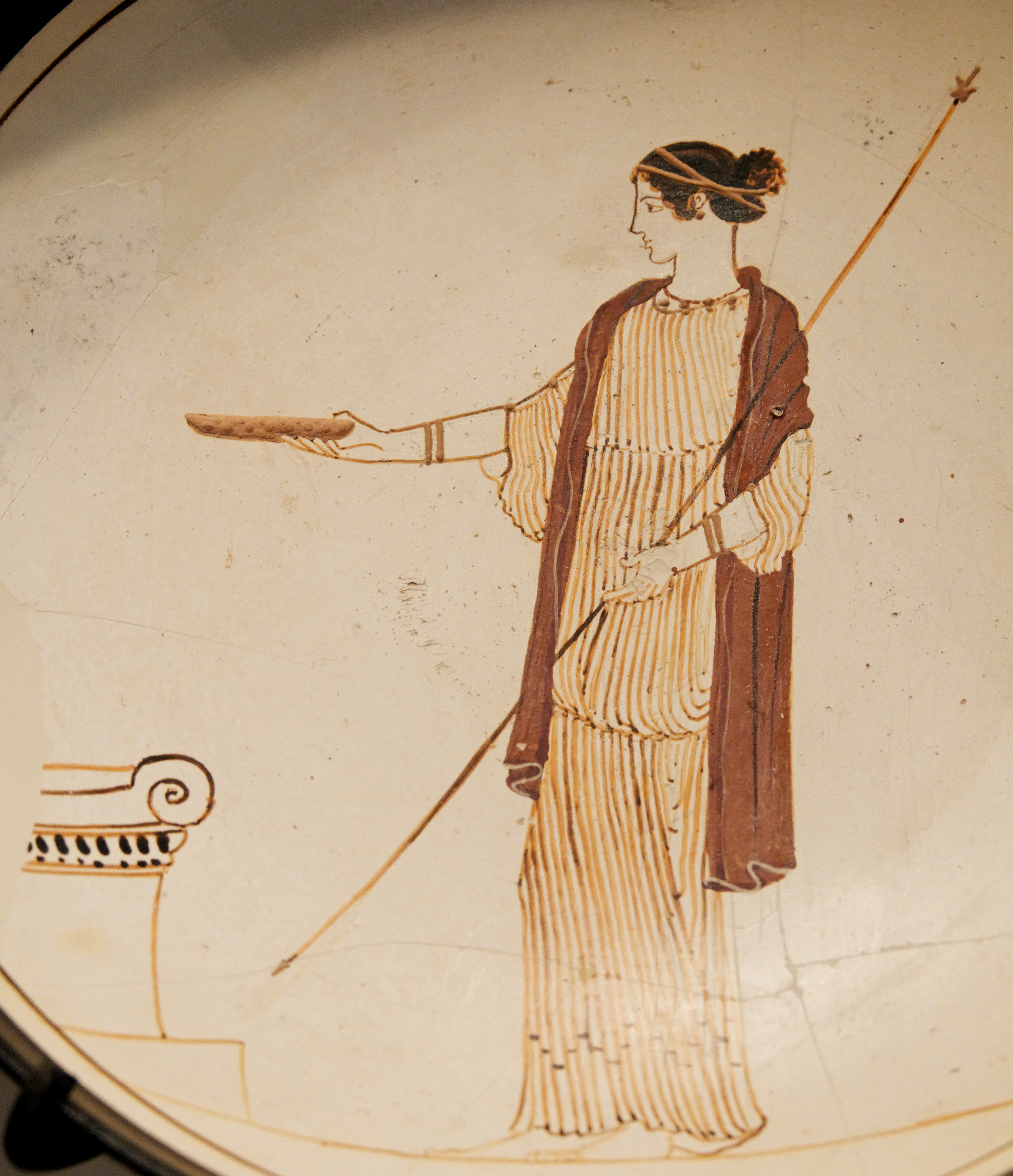 Goddess performing a libation. Tondo of an Attic white-ground kylix.